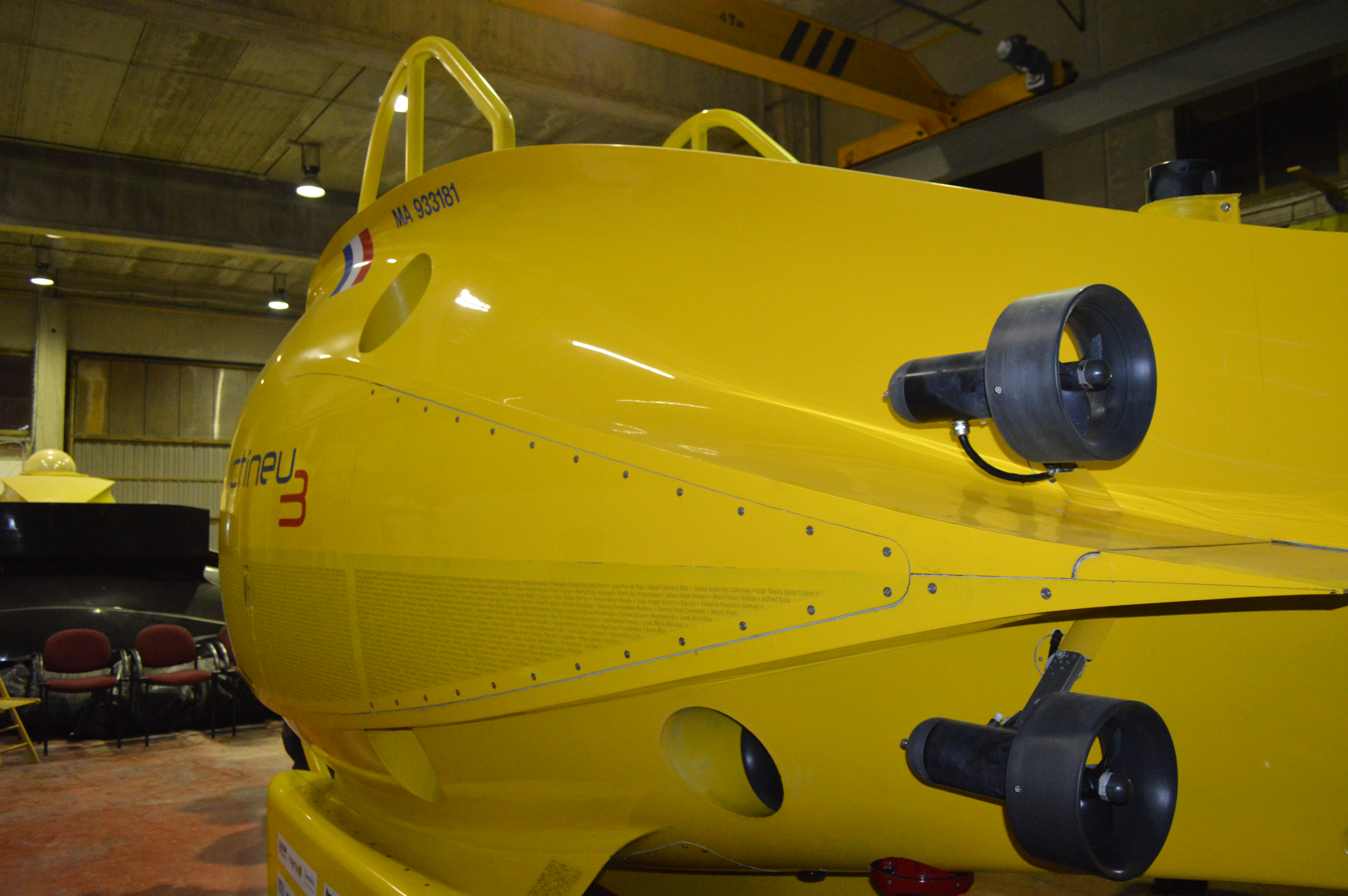 Detail of the electric motors of the scientific submarine "Ictineu 3", powered by lithium-ion batteries.